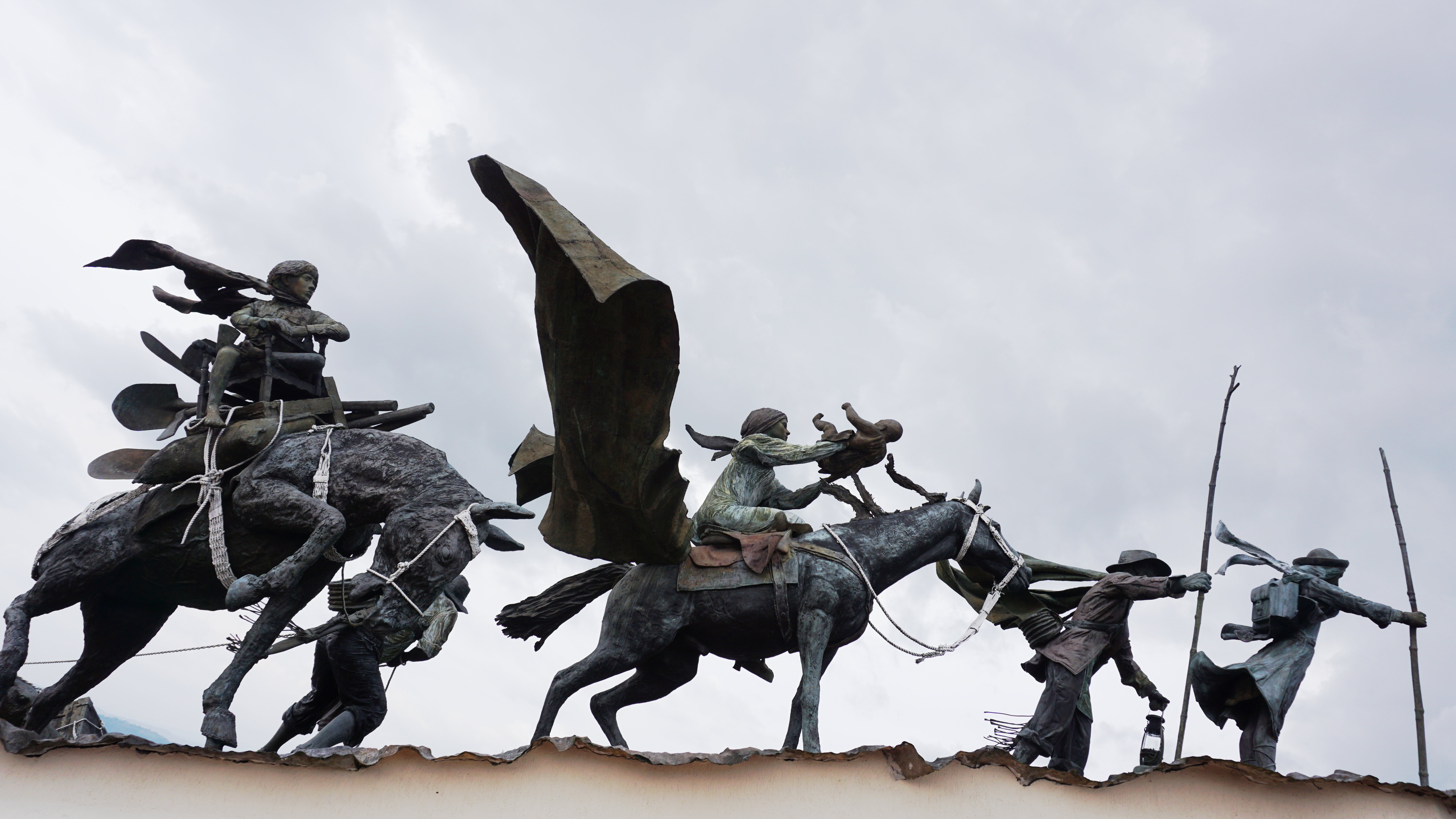 Some people that are part of the Monumento de los colonizadores in Manizales, Columbia